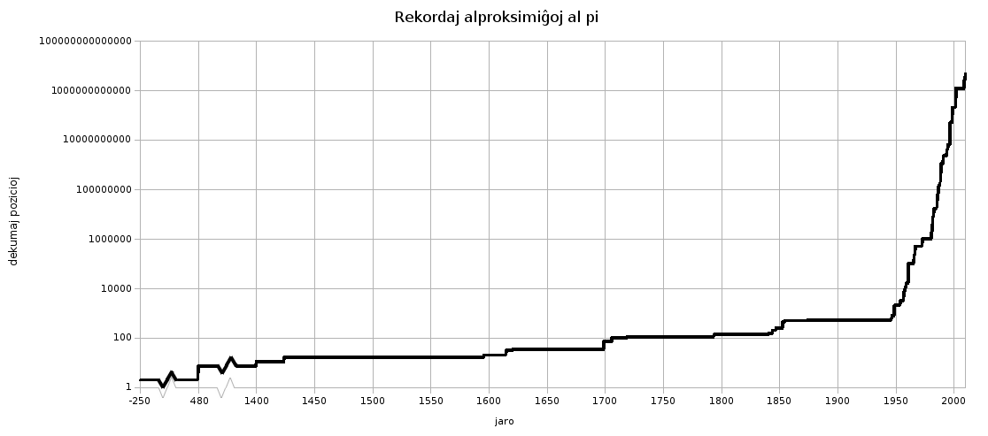 Graph showing how the record precision of numerical approximations to pi, measured in decimal places (depicted on a logarithmic scale), evolved in human history. The time before 1400 is compressed. Based on data from Chronology_of_computation_of_π.